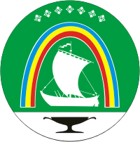 Lensk rayon (Yakutia), coat of arms